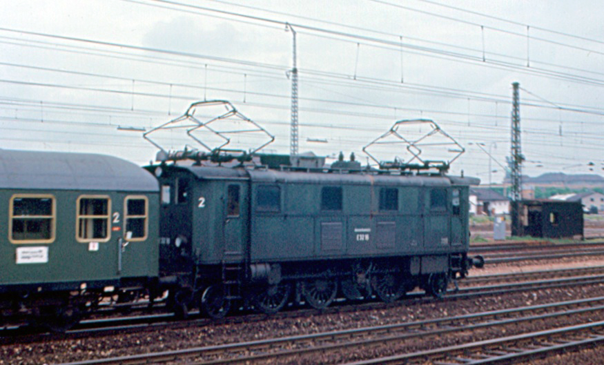 A class E32 (later class 132) electric locomotive leaving the main station in Munich. These locomotives were first in service in 1924. The last one was withdawn in 1972. This photo is in a 1970 set, but I discovered that I took it in 1967.